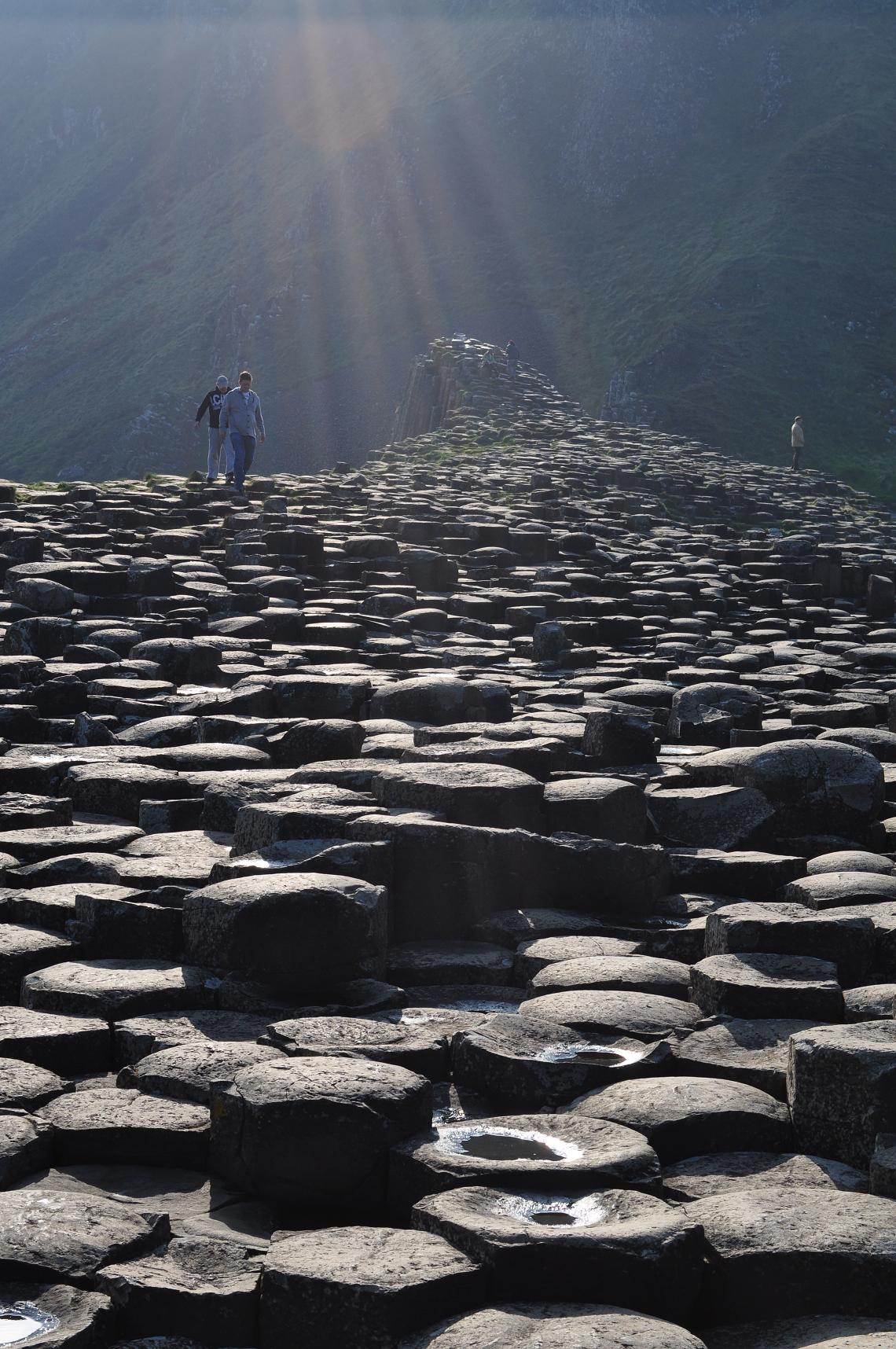 Giant's Causeway